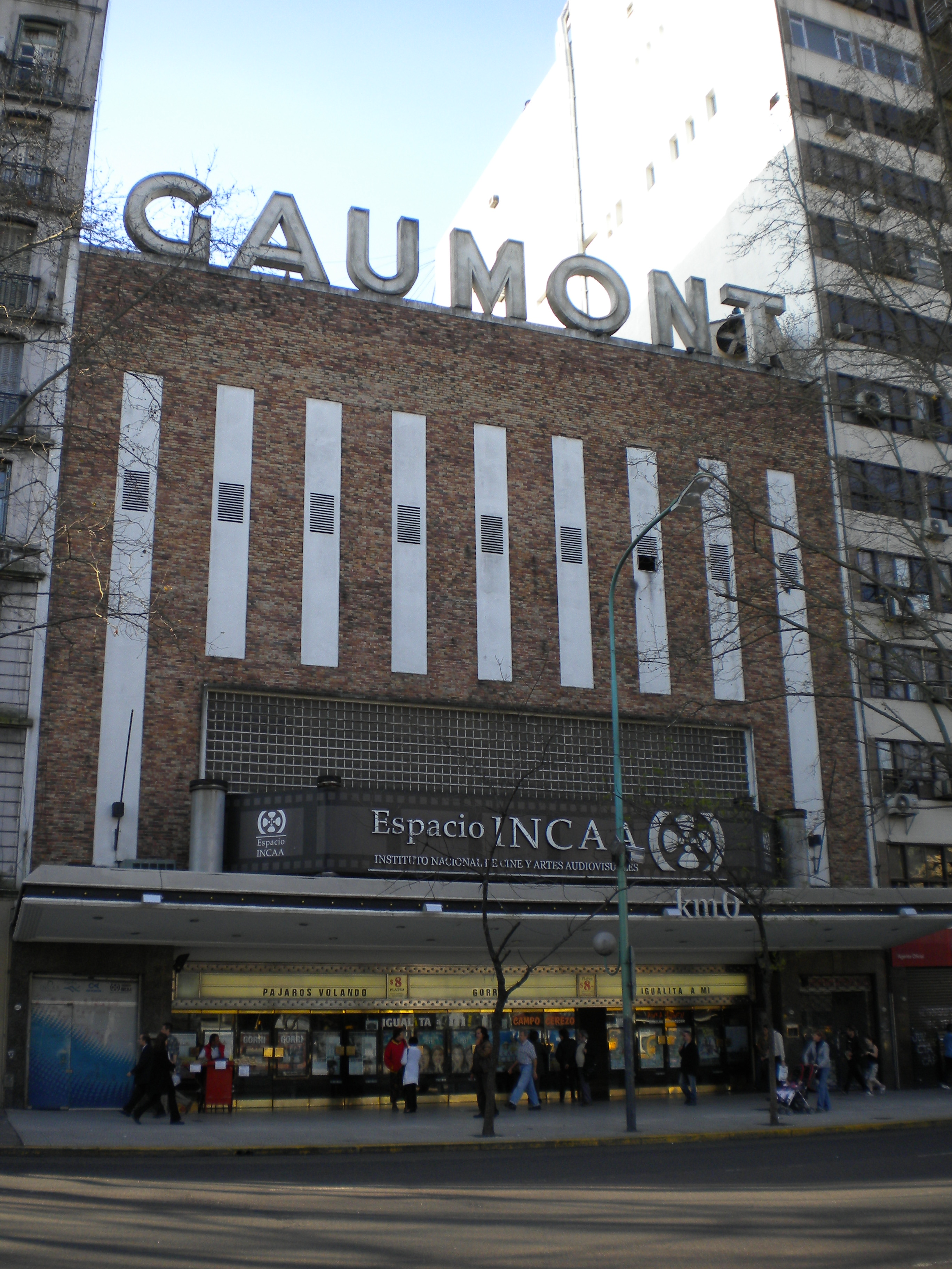 Gaumont Cinema, Buenos Aires.